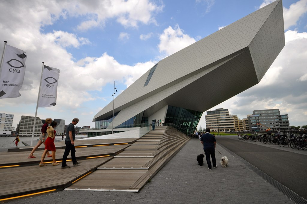 Stanley Kubrick exhibit at EYE Filminstitut Netherlands